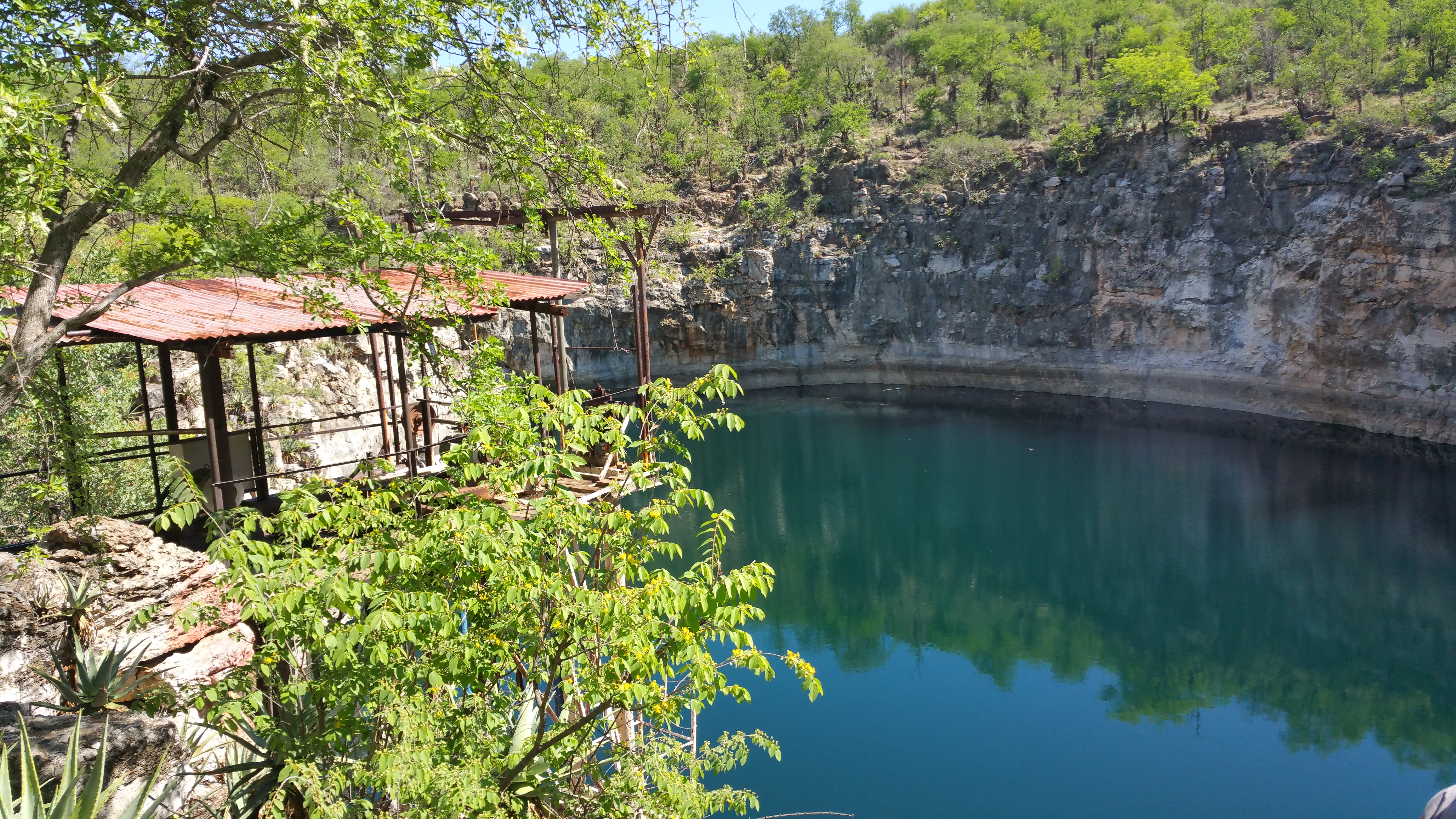 The guinas lake from above